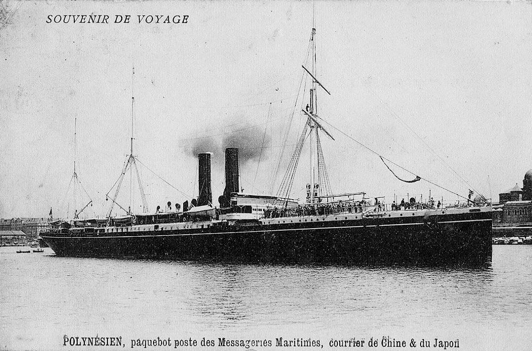 SS Polynesien.